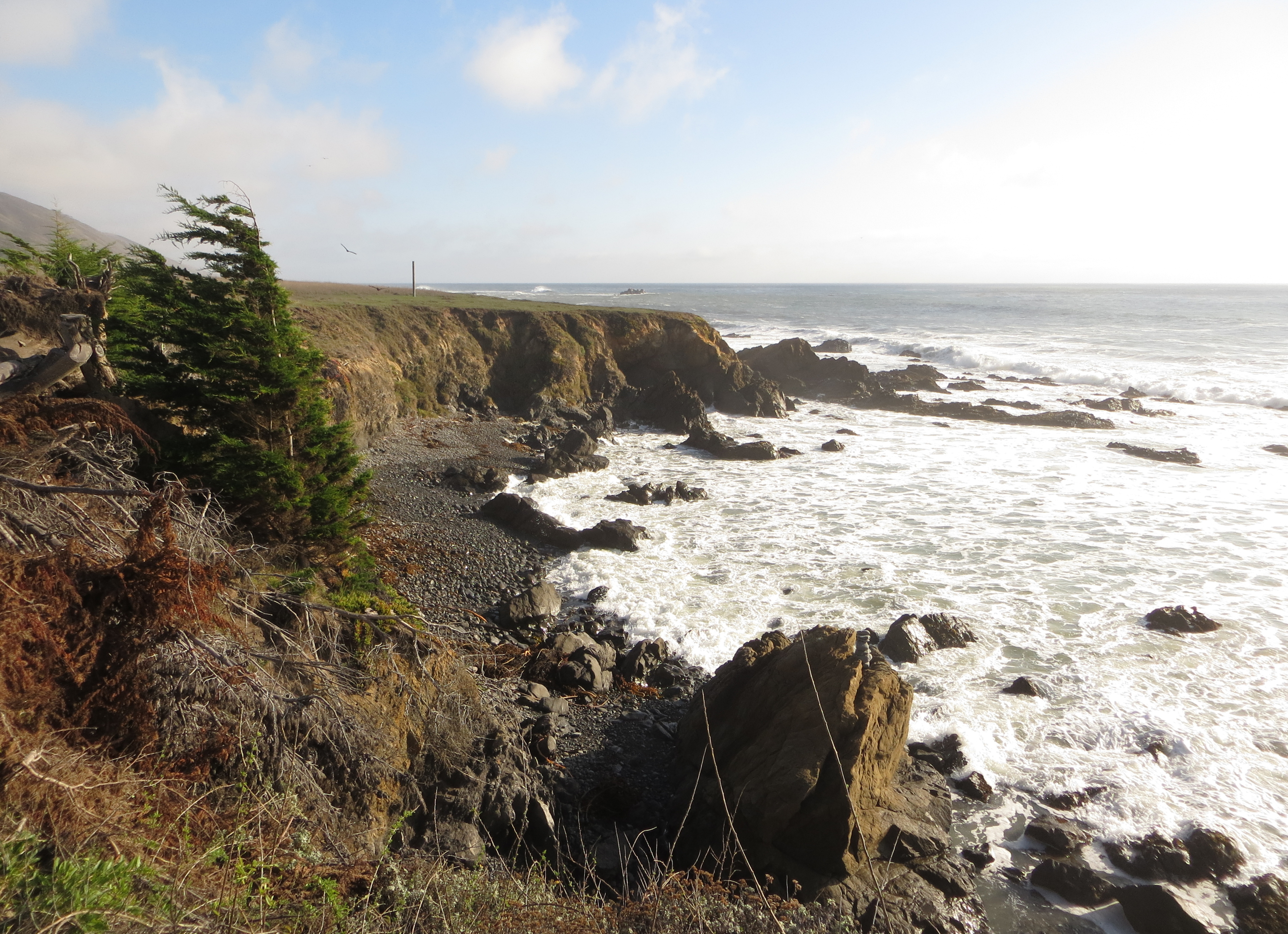 Shoreline of Kenneth S. Norris Rancho Marino Reserve in central California, taken November 2016.